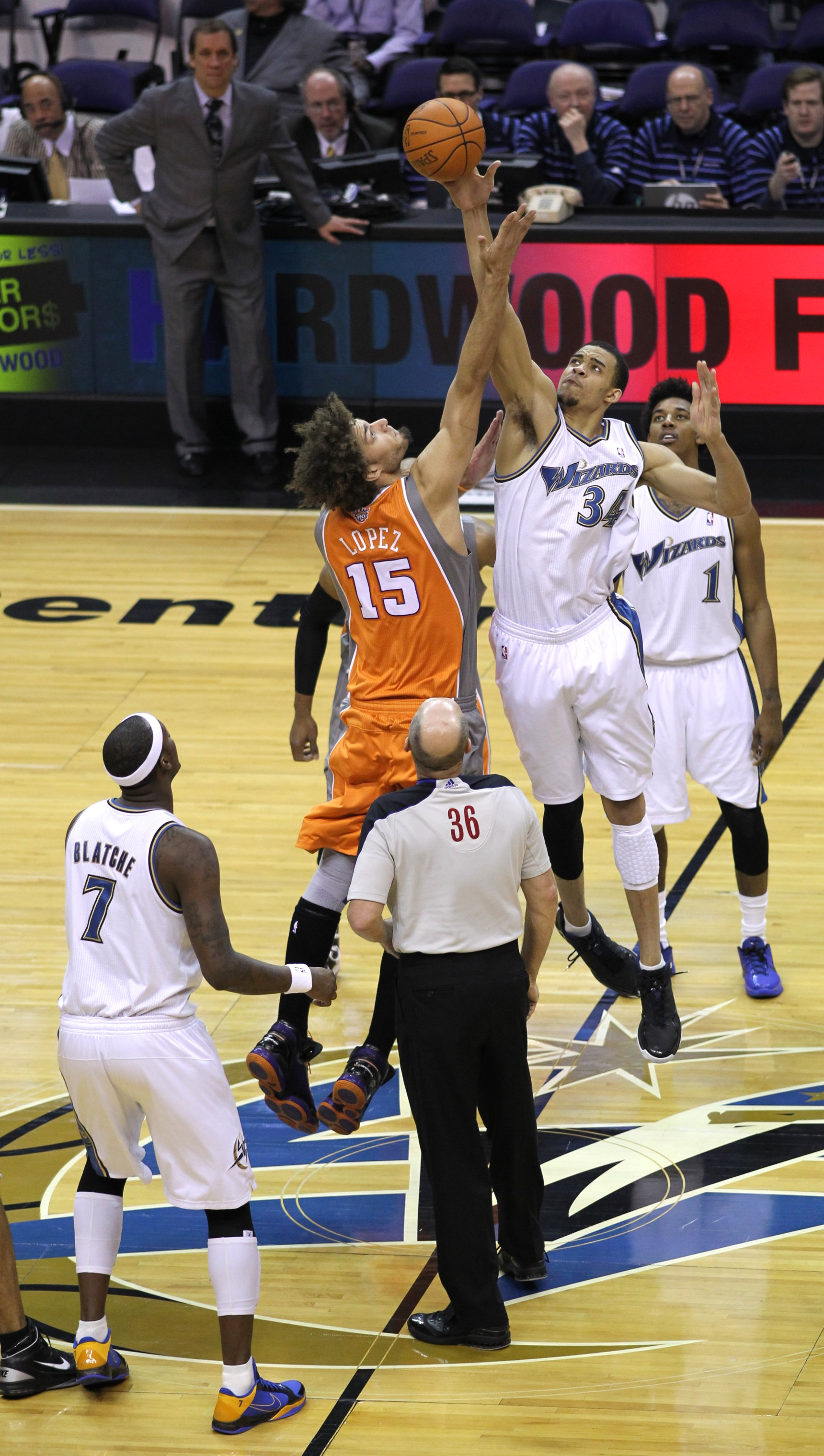 Washington Wizards v/s Phoenix Suns January 21, 2011